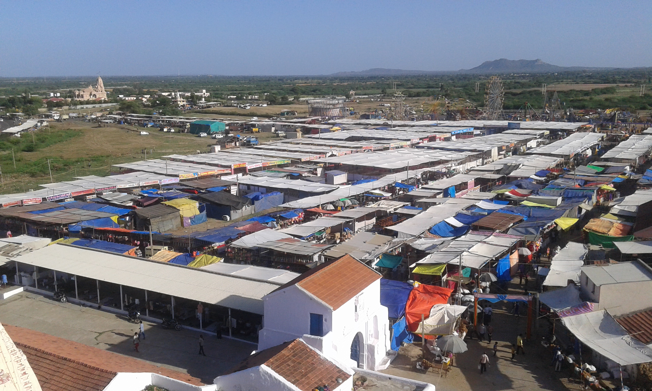 Jakh Bahotera are group of folk deities worshiped in Kutch region of Gujarat, India. Image of annual fair known as Mota Yaksh Fair (or Mela) is taken at shrine temple at Kakadbhit (Mota Yaksh) near Nakhtrana, near Bhuj, Kutch, Gujarat, India.